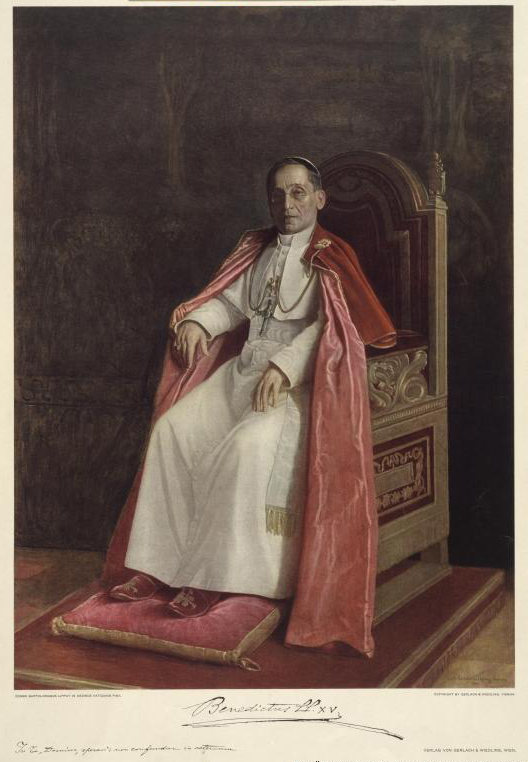 Pope Benedict XV. Austrian postcard of 1915 with the portrait by Berthold Dominik Lippay